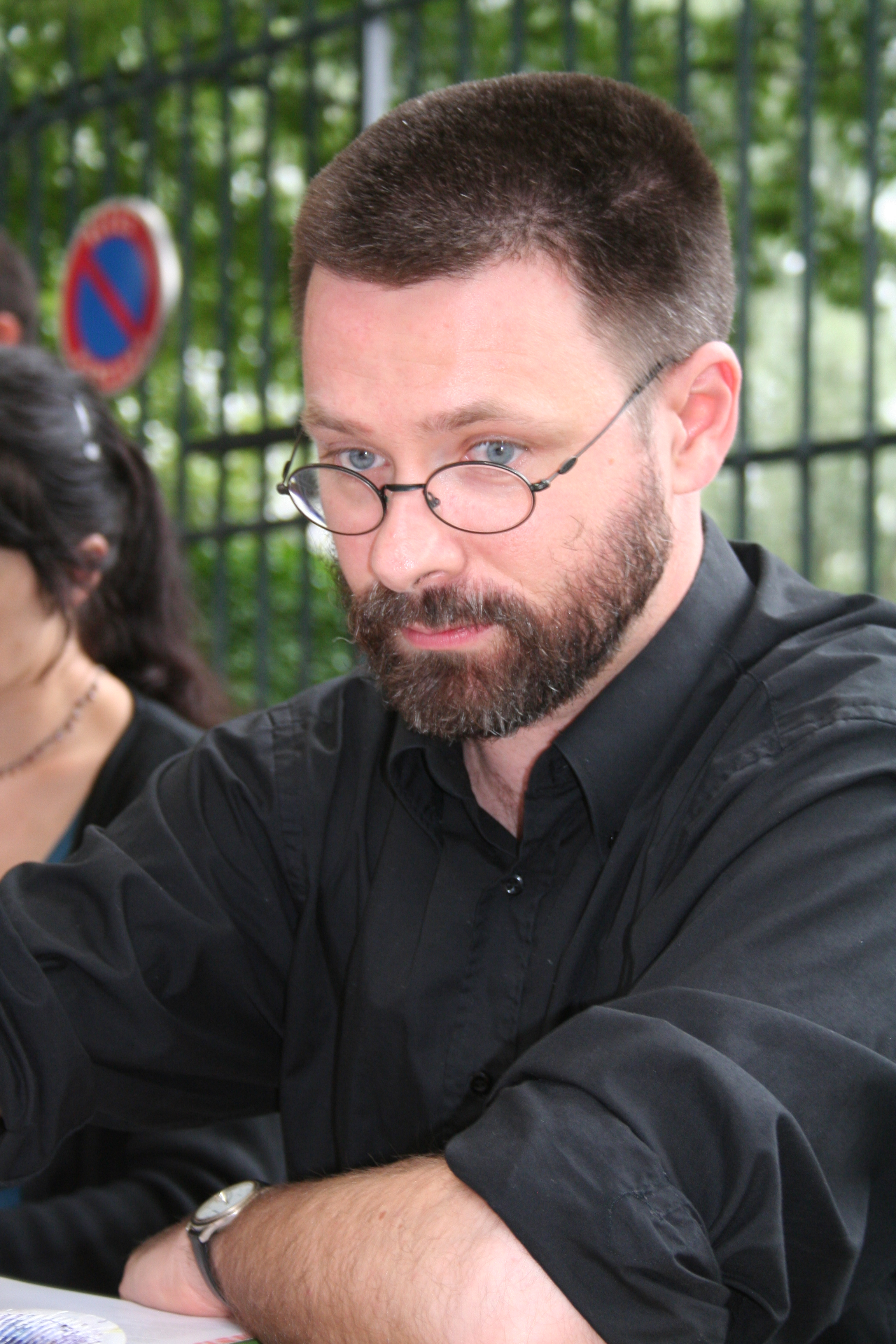 Autograph session with Mazan at Delcourt festival 2006 (Paris, France).